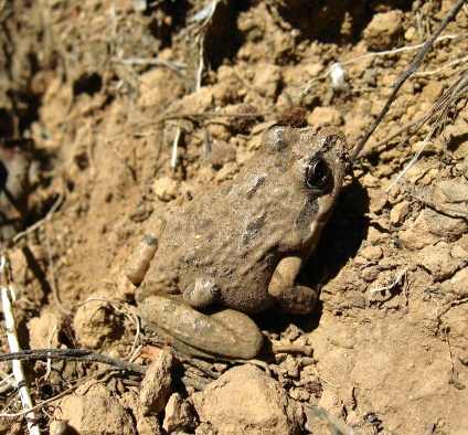 Pleurodema thaul